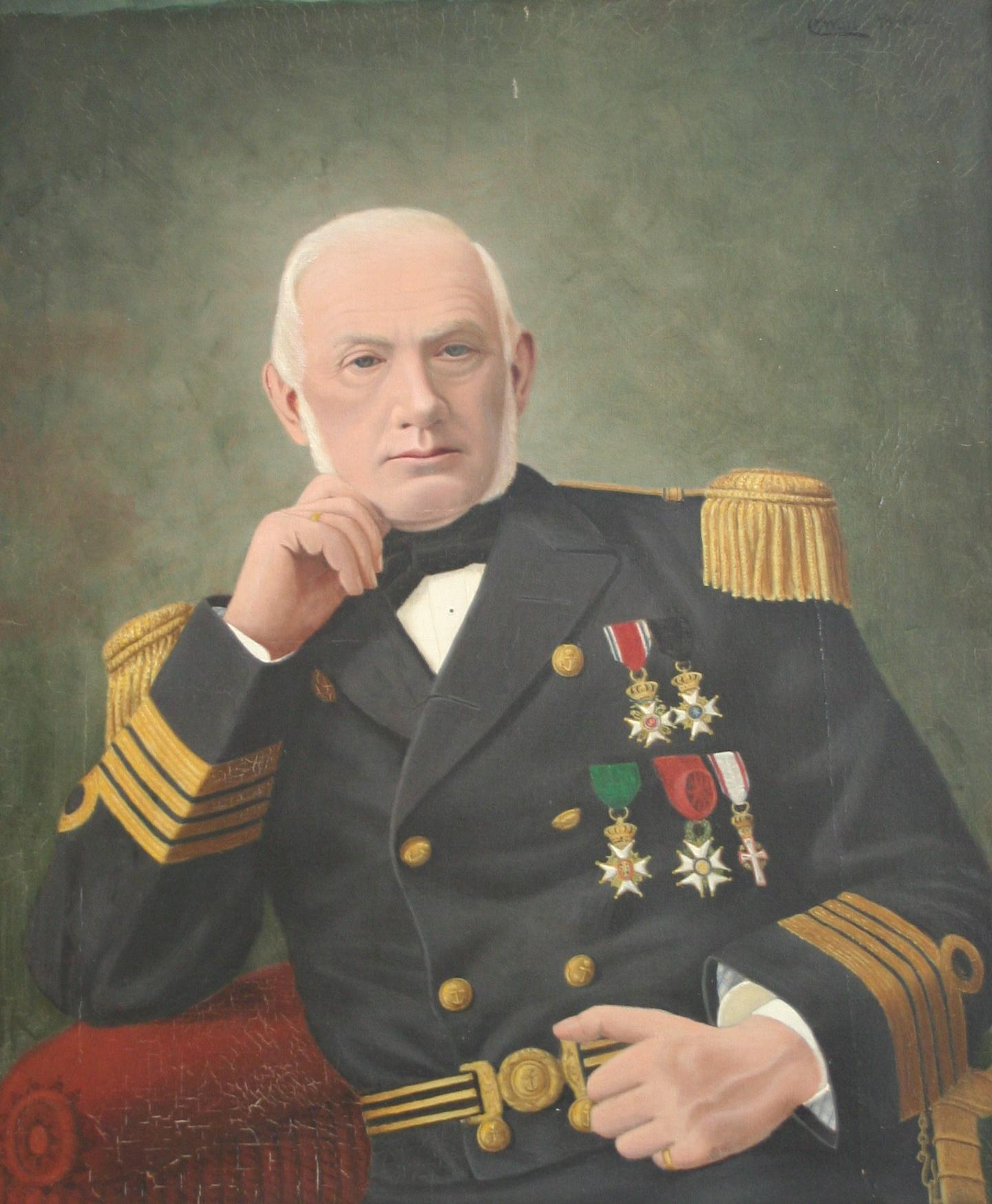 Portrait of admiral Johan Koren at Sjømilitære Samfund Horten